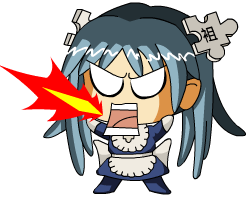 Angry Wikipe-tan.